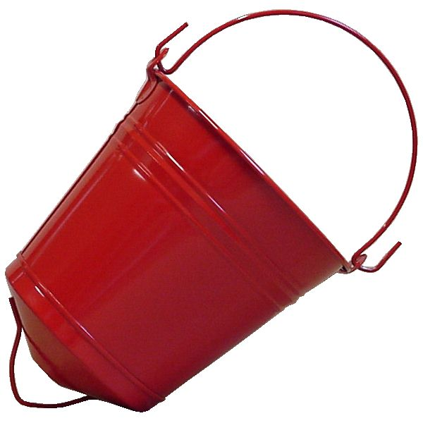 Fire bucket